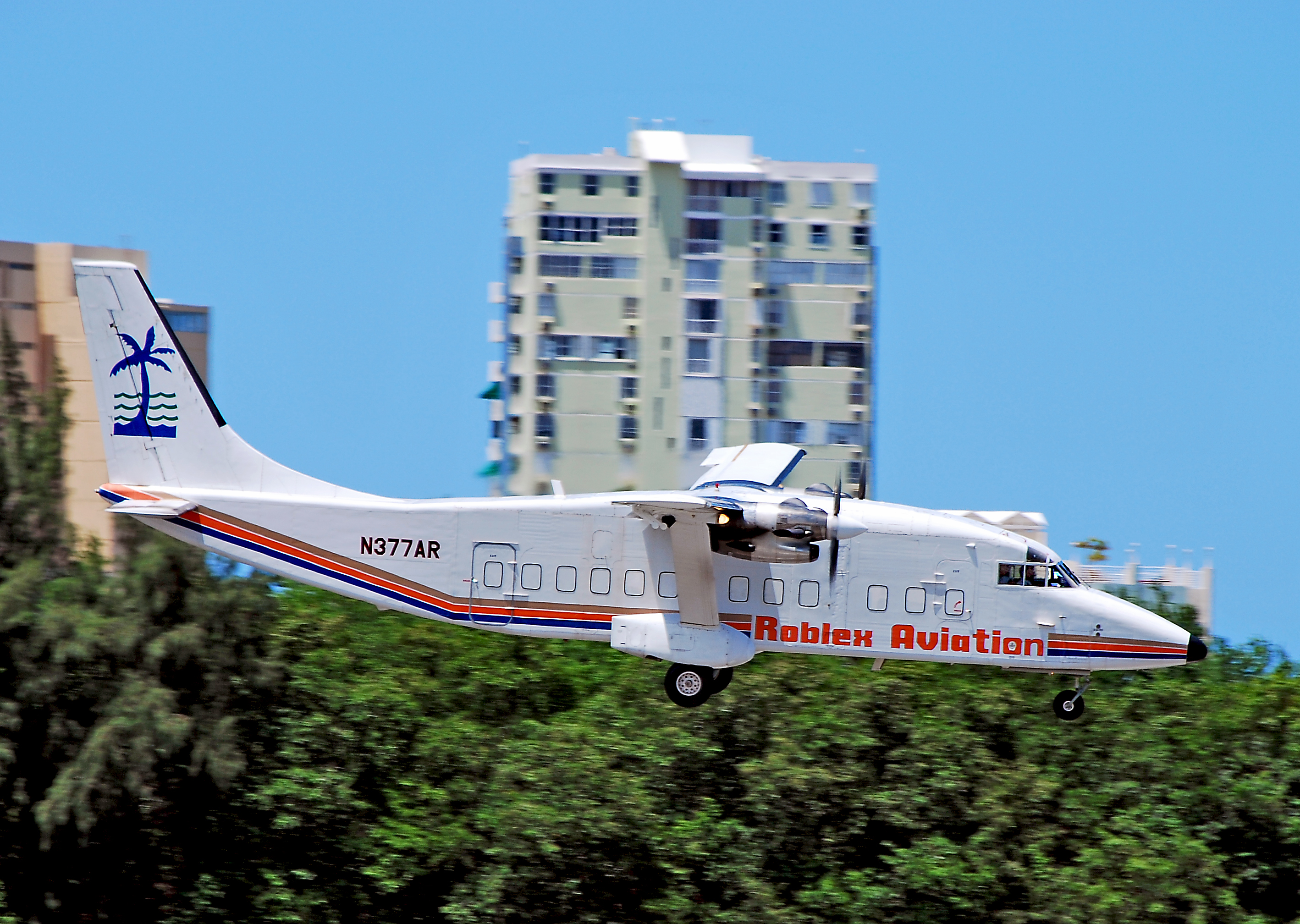 Roblex Aviation Short 360-300 N377AR on short finals at SJU